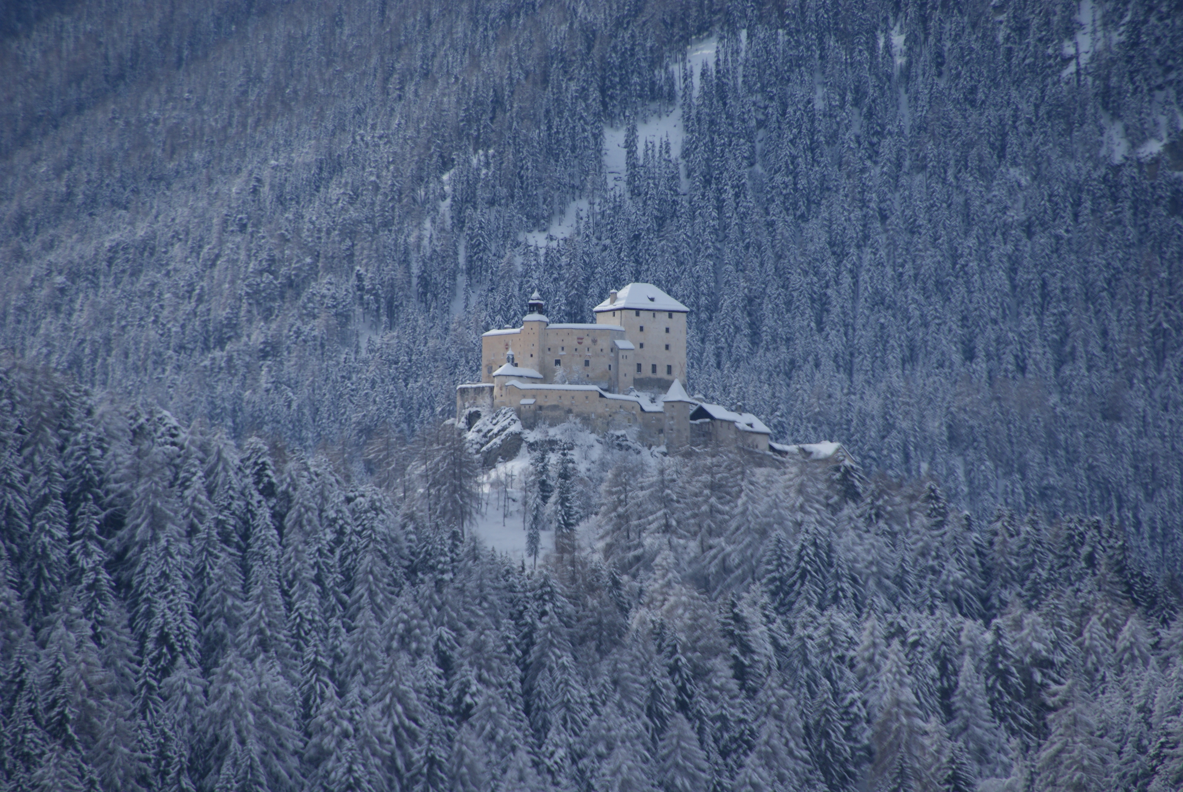 Tarasp Castle, Canton Graubünden, Switzerland